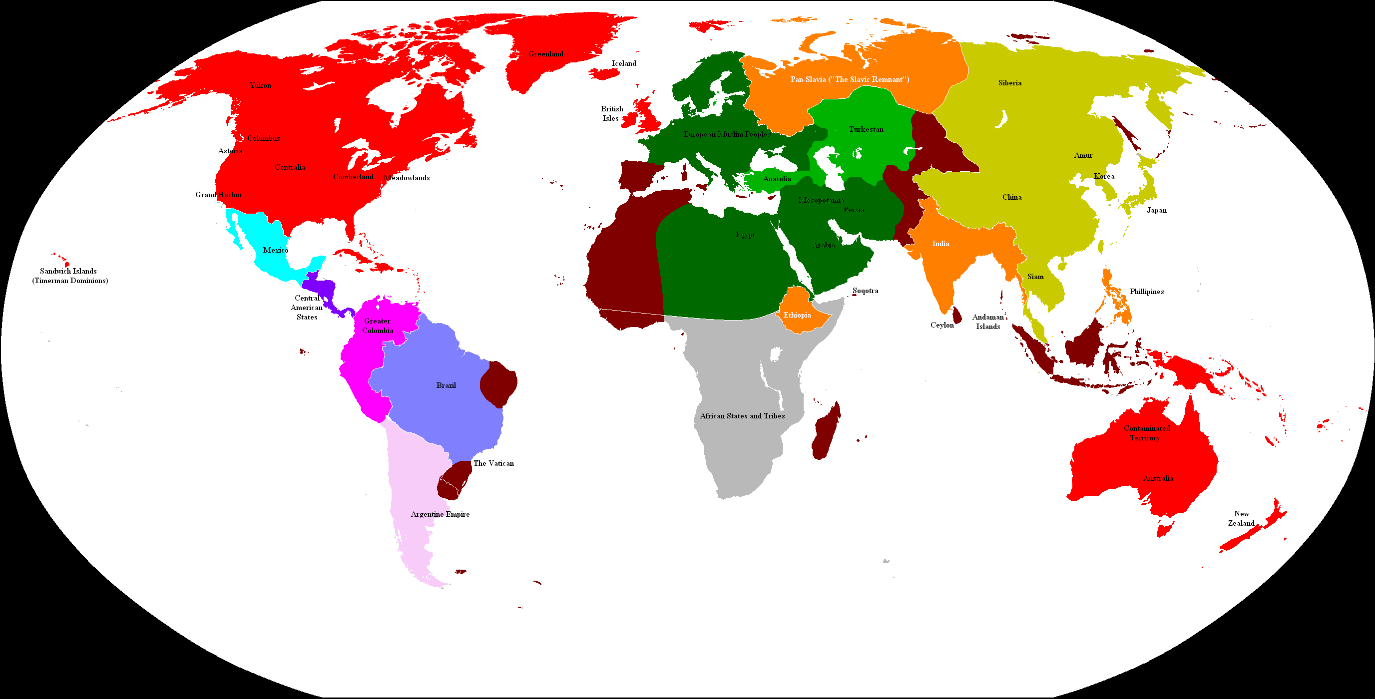 Map showing the world of Theodore Judson's novel Fitzpatrick's War, showing the territorial changes at the end of the Four Points War. Dark red indicates areas conquered or ceded to the Yukon Confederacy; dark green areas are those revolting against the Turkish Sultan.